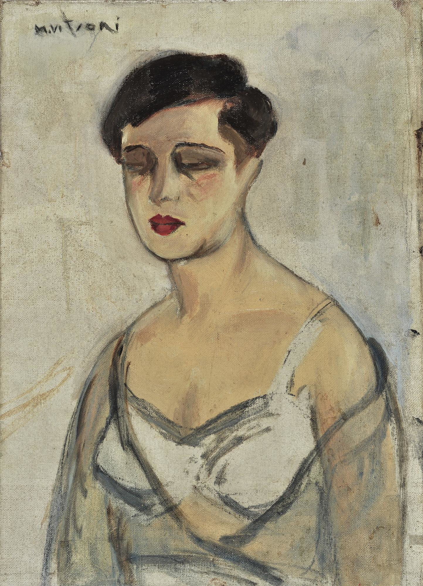 Greek artist Dimitris Vitsoris (1902-1945), Lady